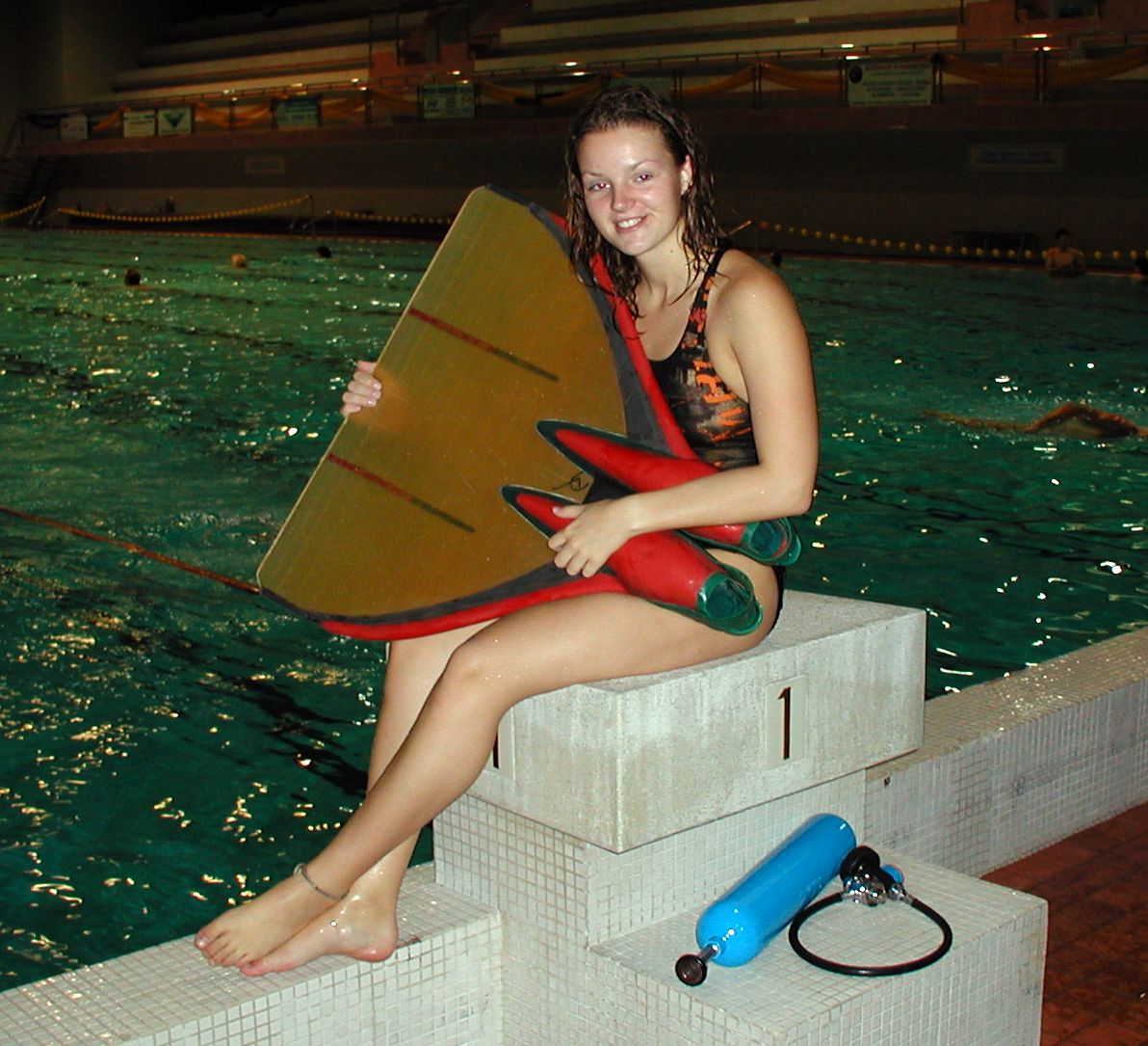 Nada Tylova (CZ) with monofin